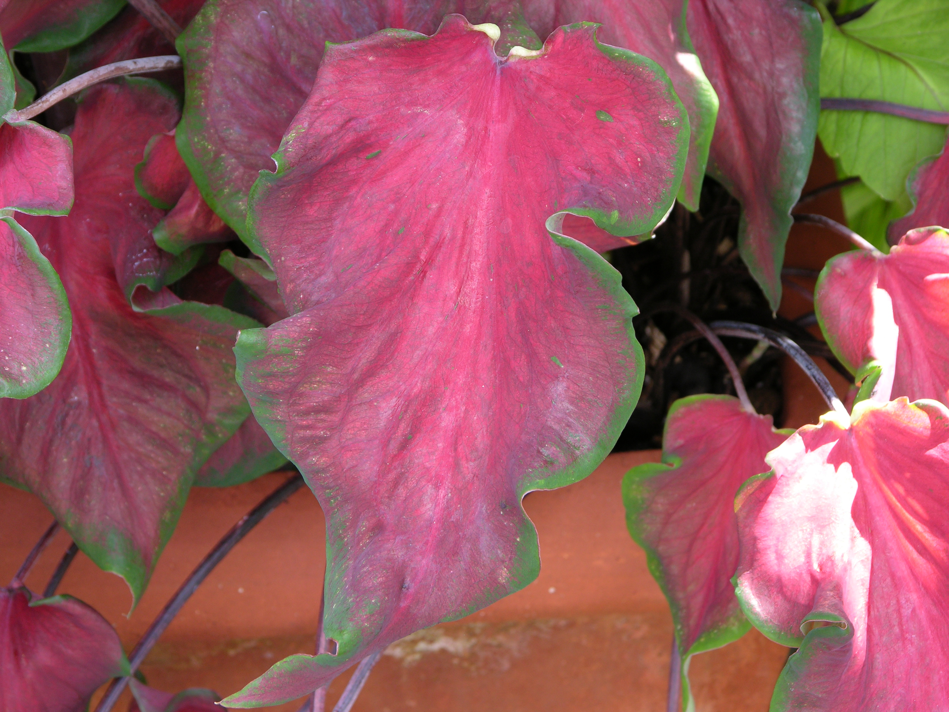 A picture of a Caladium (Caladium bicolor 'Florida Red Ruffles') plant. Photo taken at the Chanticleer Garden where it was identified.